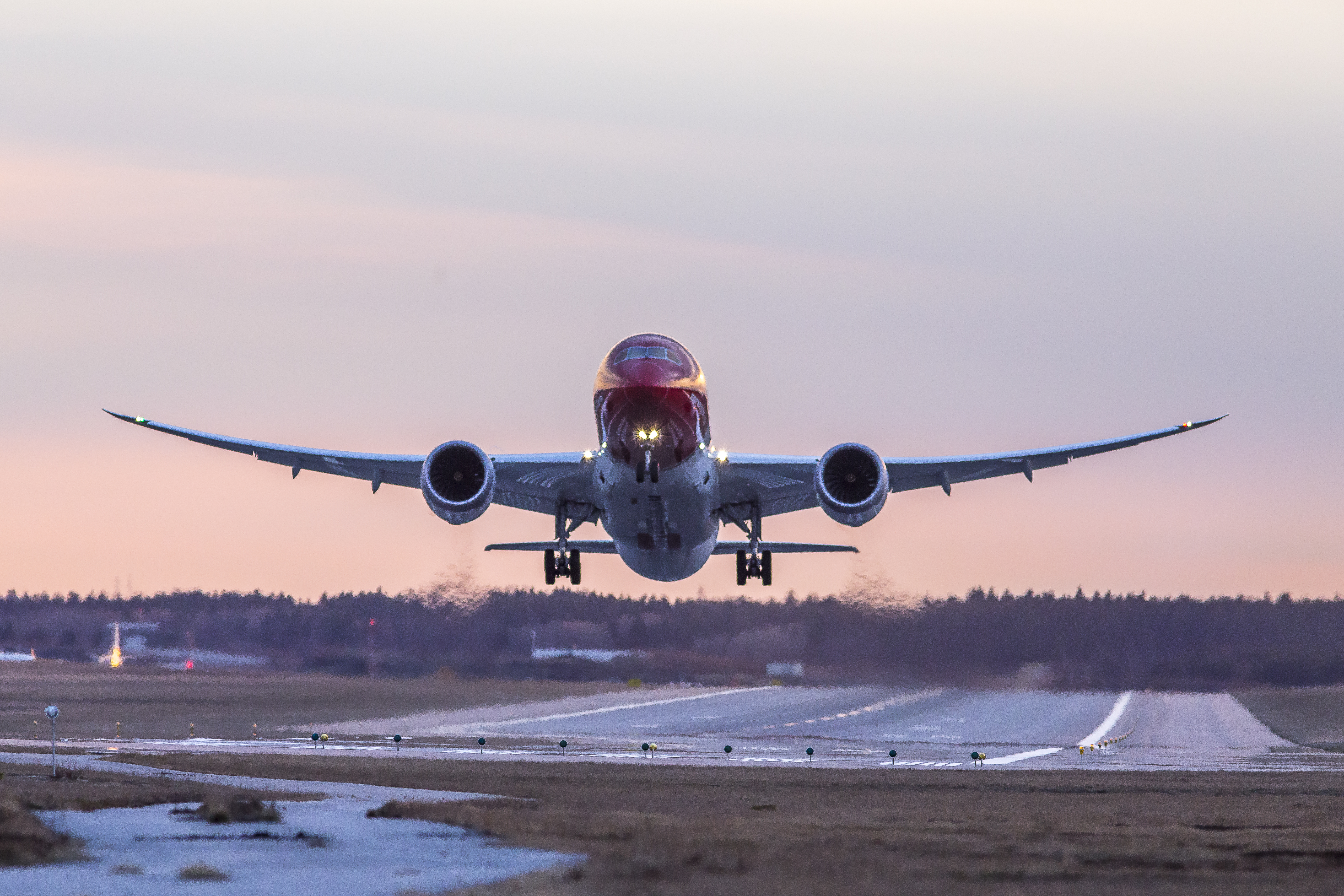 Norwegian Boeing 787 takes off at sunset from Oslo Gardermoen